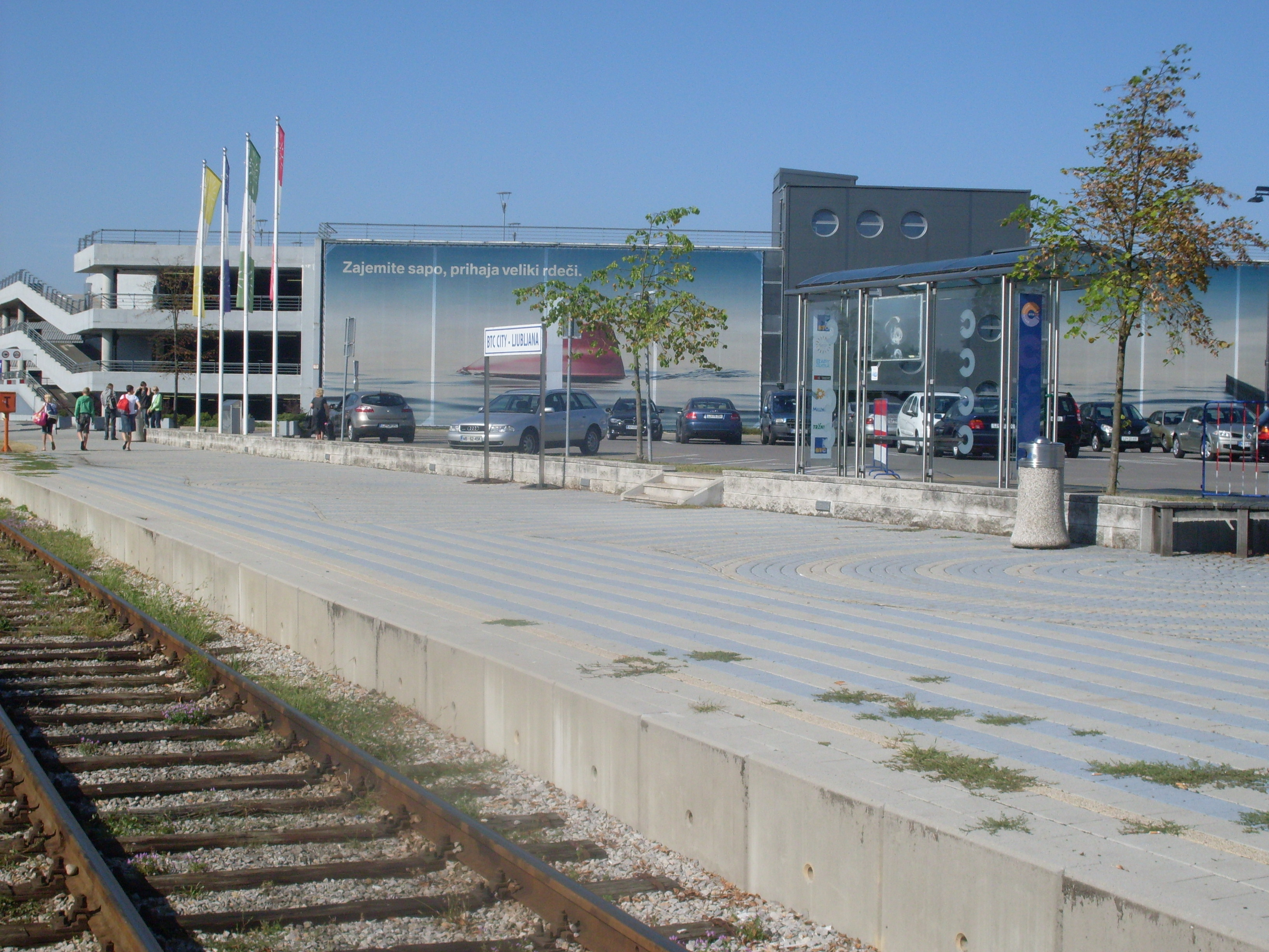 Railway halt BTC City - Ljubljana in the BTC shopping centre in eastern Ljubljana.